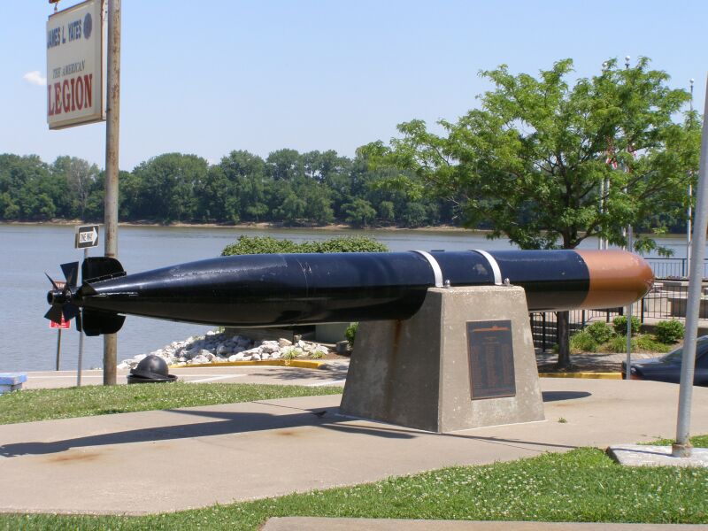 Memorial to Capt Dudley Morton, Owensboro, Kentucky, United States.